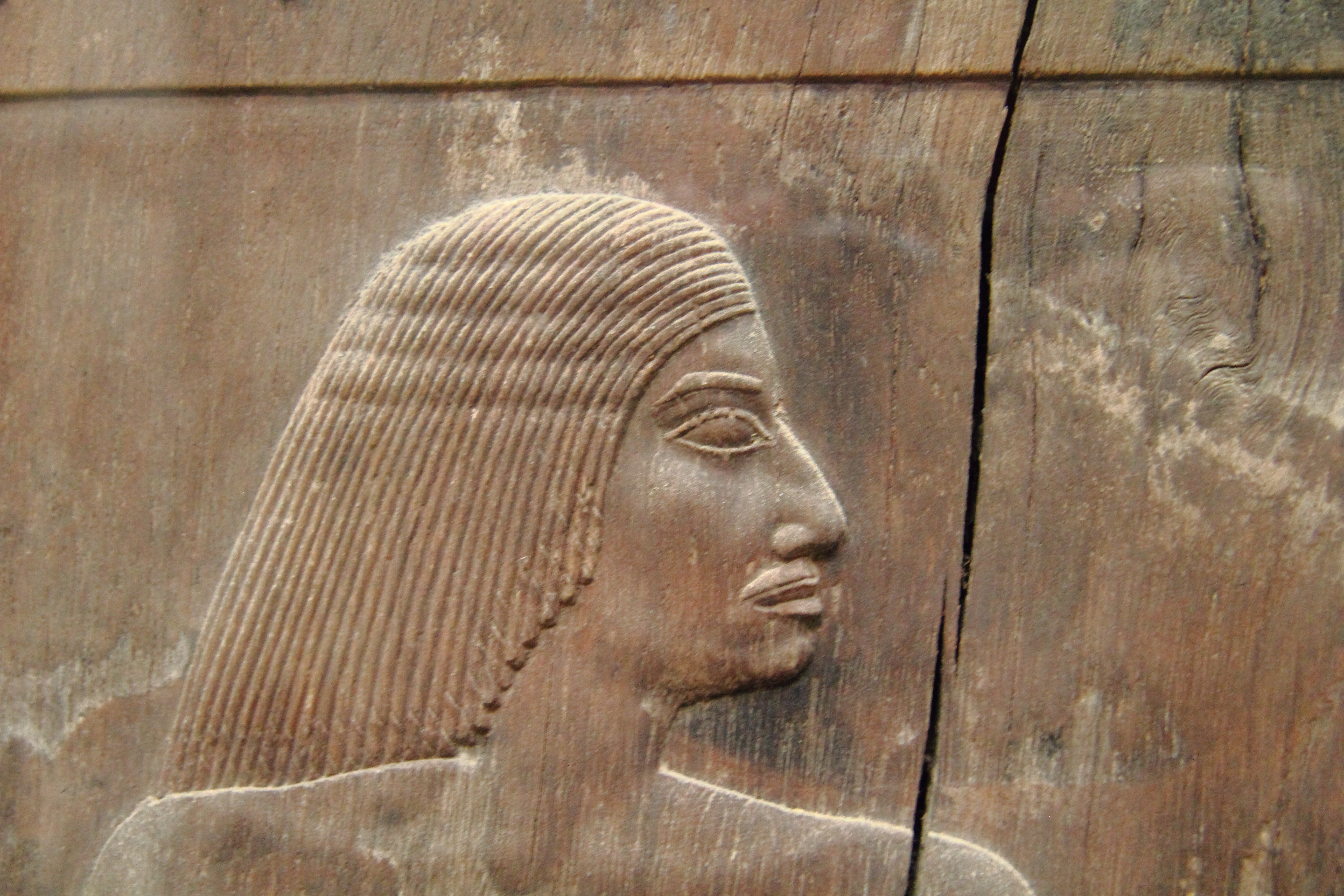 Egyptian Museum Cairo: wood panel from the tomb of Hesy-Ra